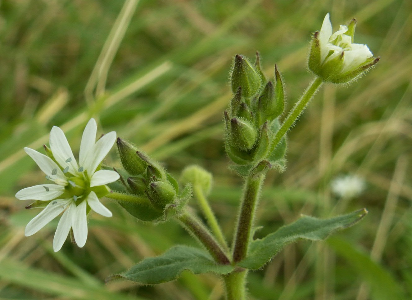 Myosoton aquaticum, flowers. Turze near Pyrzyce, NW Poland.